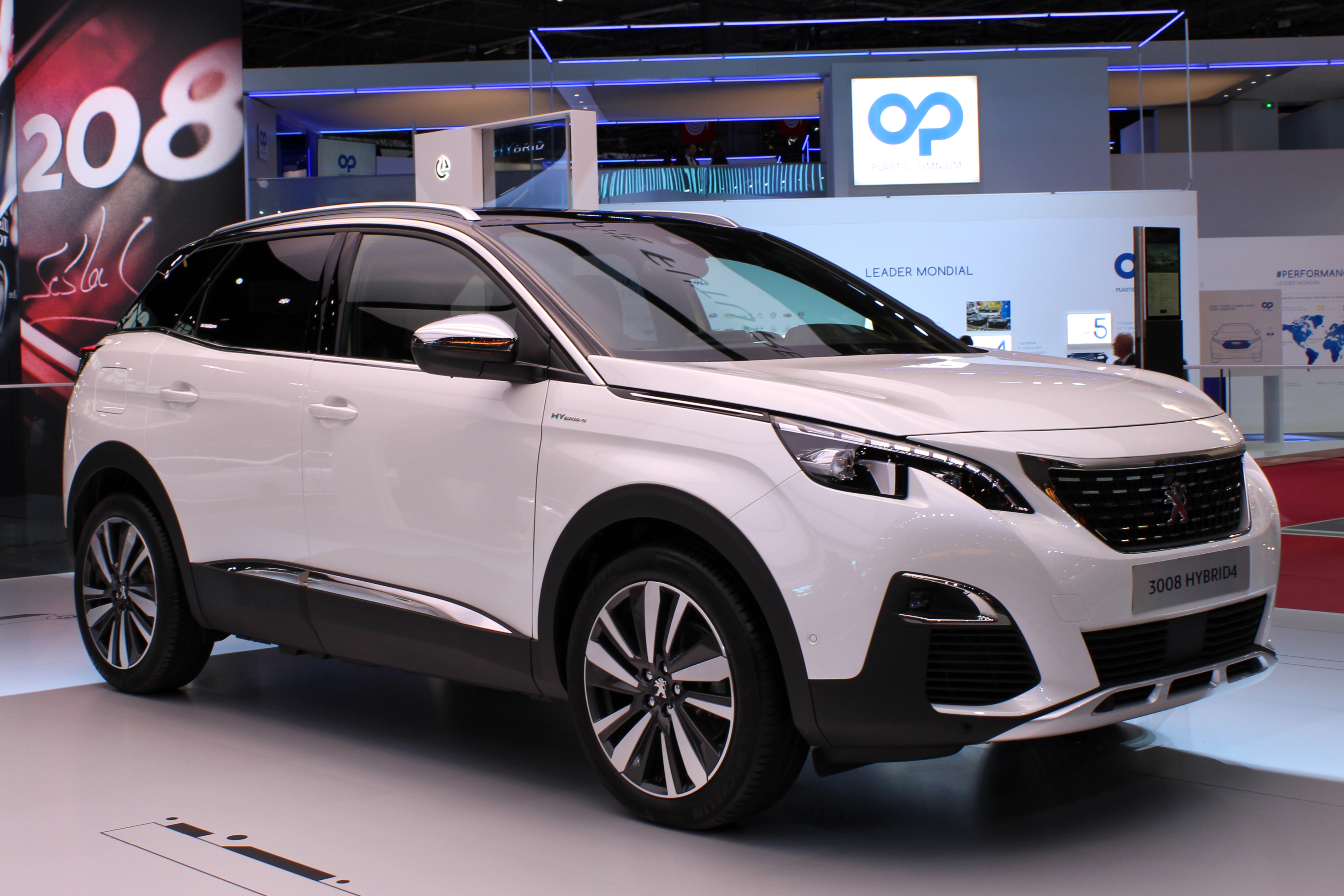 Peugeot 3008 Hybrid4 at Paris Motor Show 2018